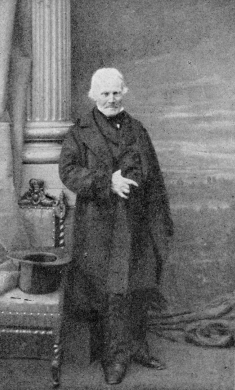 Louis-René Villermé at 78 years old, obligingly communicated by Mr. L. de La Serre, his great-grandson